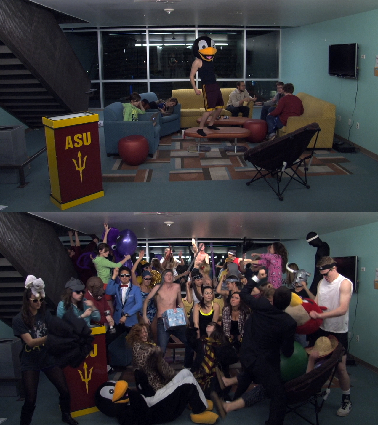 Screenshot from